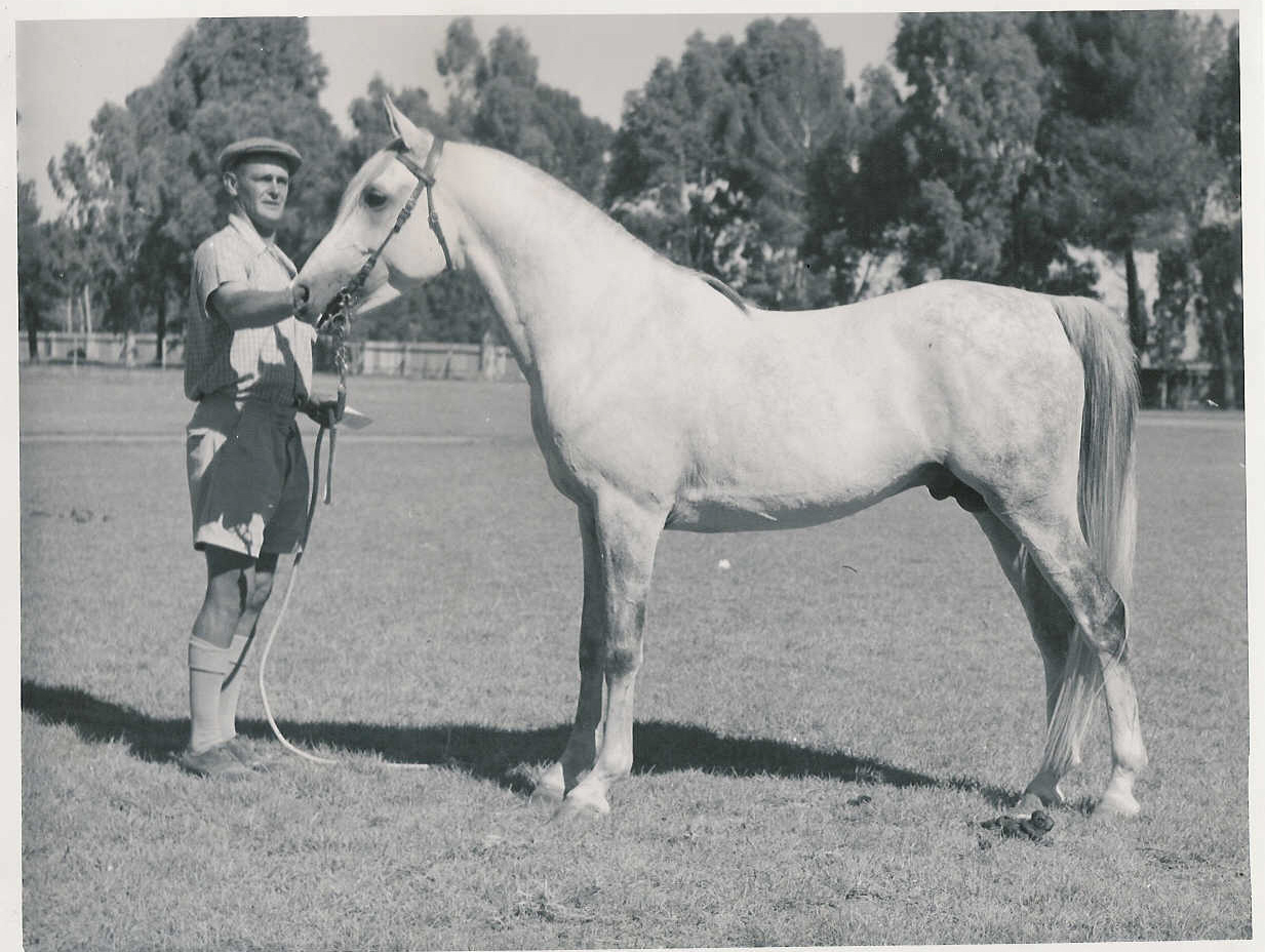 Bozaz in 1949